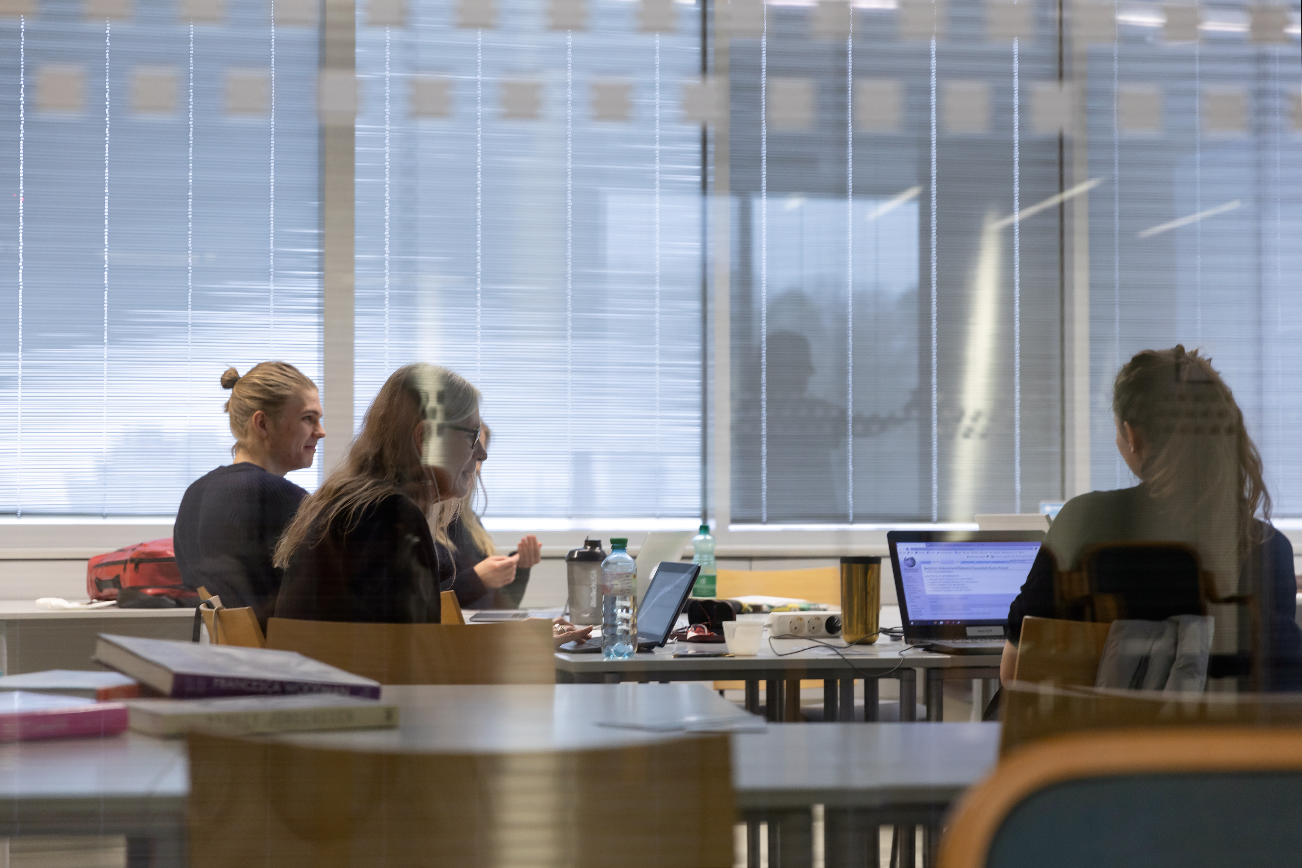 Wiki♥Vielfalt (Edit-a-thon and meeting) at Wissensturm in Linz, Austria.